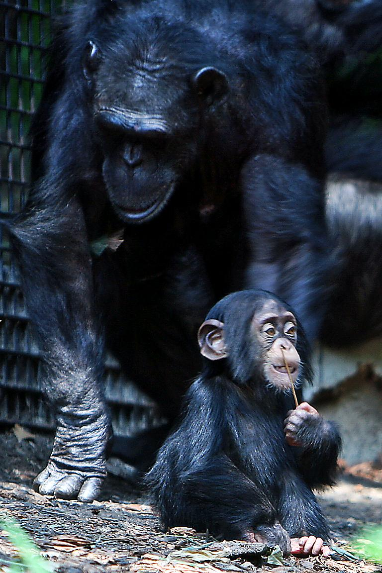 See description on File:Chimpanzee mom and baby.jpg. I cropped it slightly to remove the original black frame.